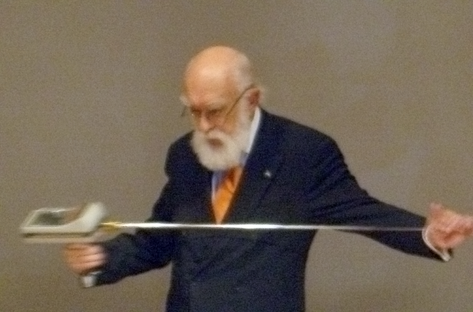 Skepticism educator James Randi at a lecture at Rockefeller University, on October 10, 2008. In the above photo he is holding an $800 device advertised as a dowsing instrument.